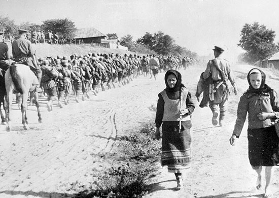 Troops of the 49th Guards Rifle Division of the 5th Shock Army, 3rd Ukrainian Front, on the march during the Jassy-Kishinev Offensive in Moldova